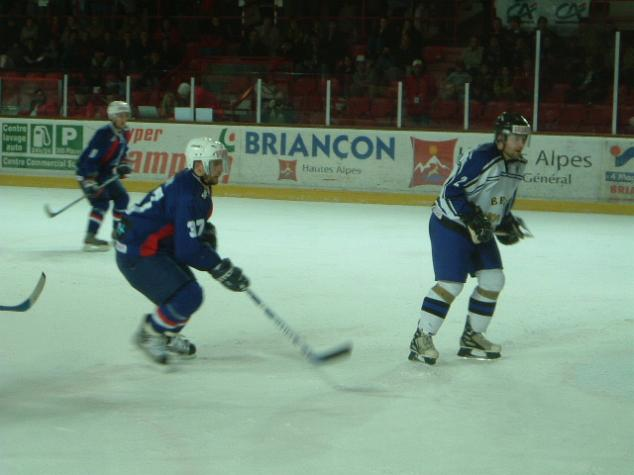 Nicolas Favarin, ice hockey player with team France. Olympic qualification in Briançon, France, november 2004.